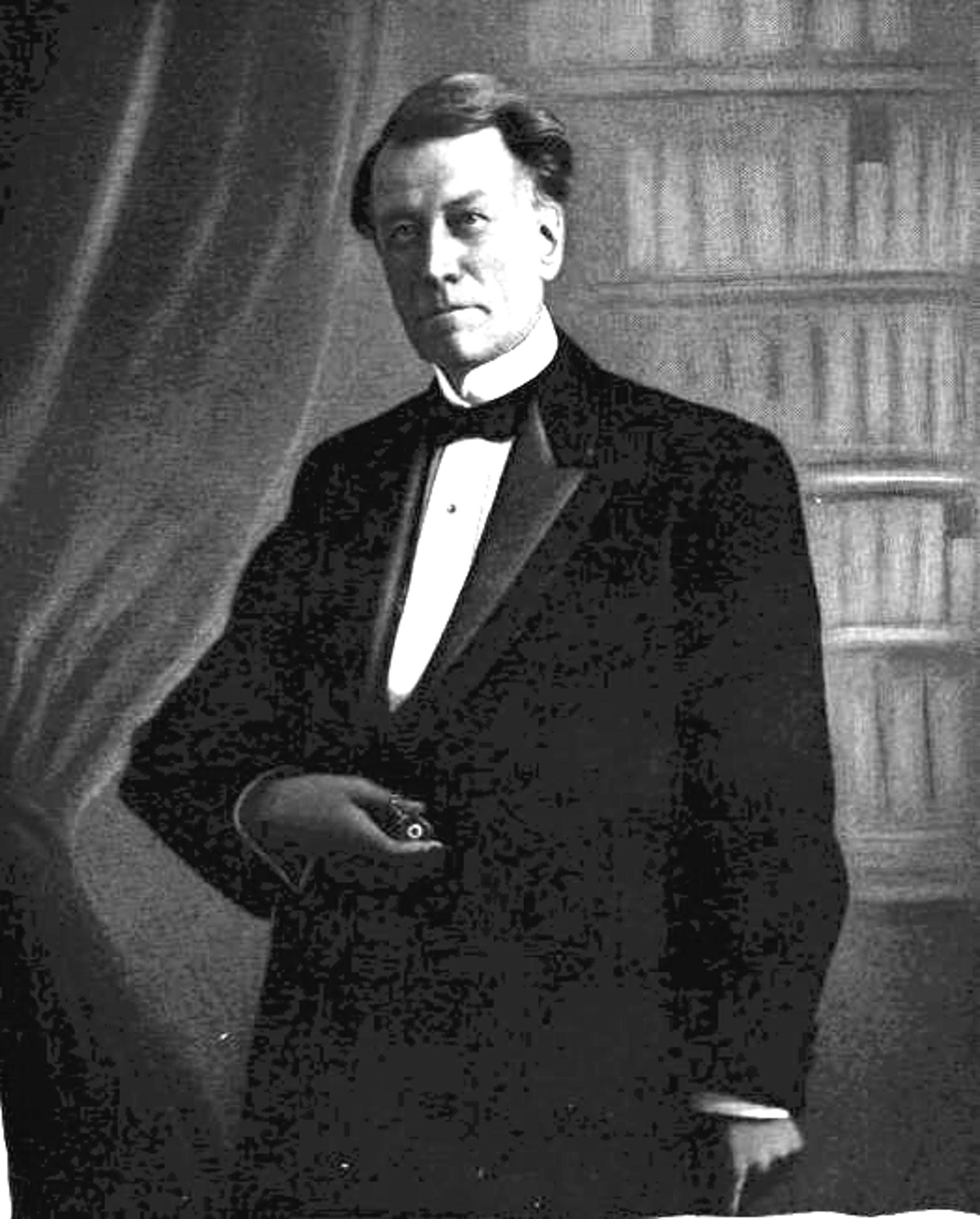 My copy of a page from : "Maine: A History" By Louis Clinton Hatch, Maine Historical Society, Maine Historical Society Published by The American historical society, 1919, pg. 183[1] (accessed November 20, 2008)